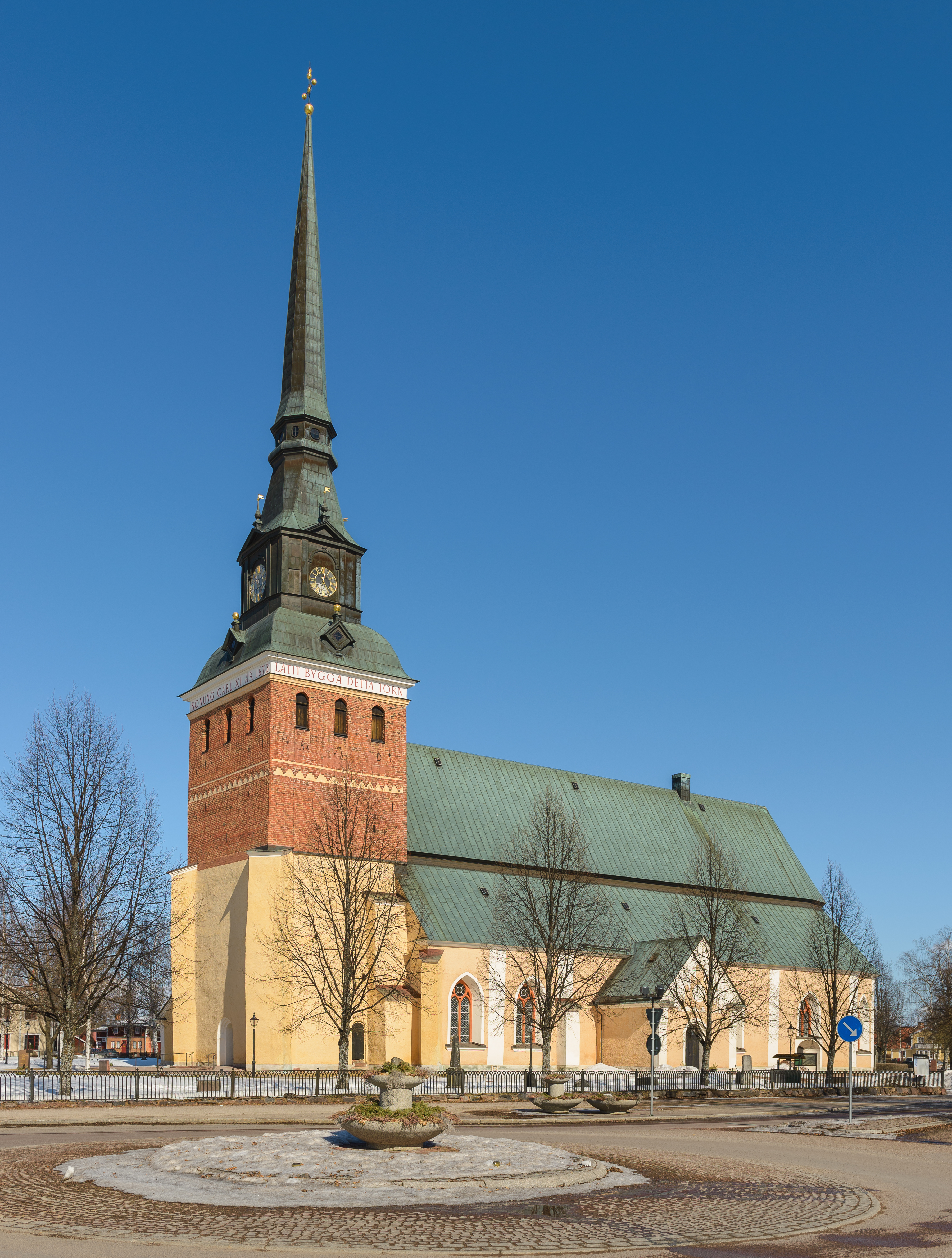 Mora kyrka (church), Mora, Sweden. Mora Parish, Diocese of Västerås, Church of Sweden.